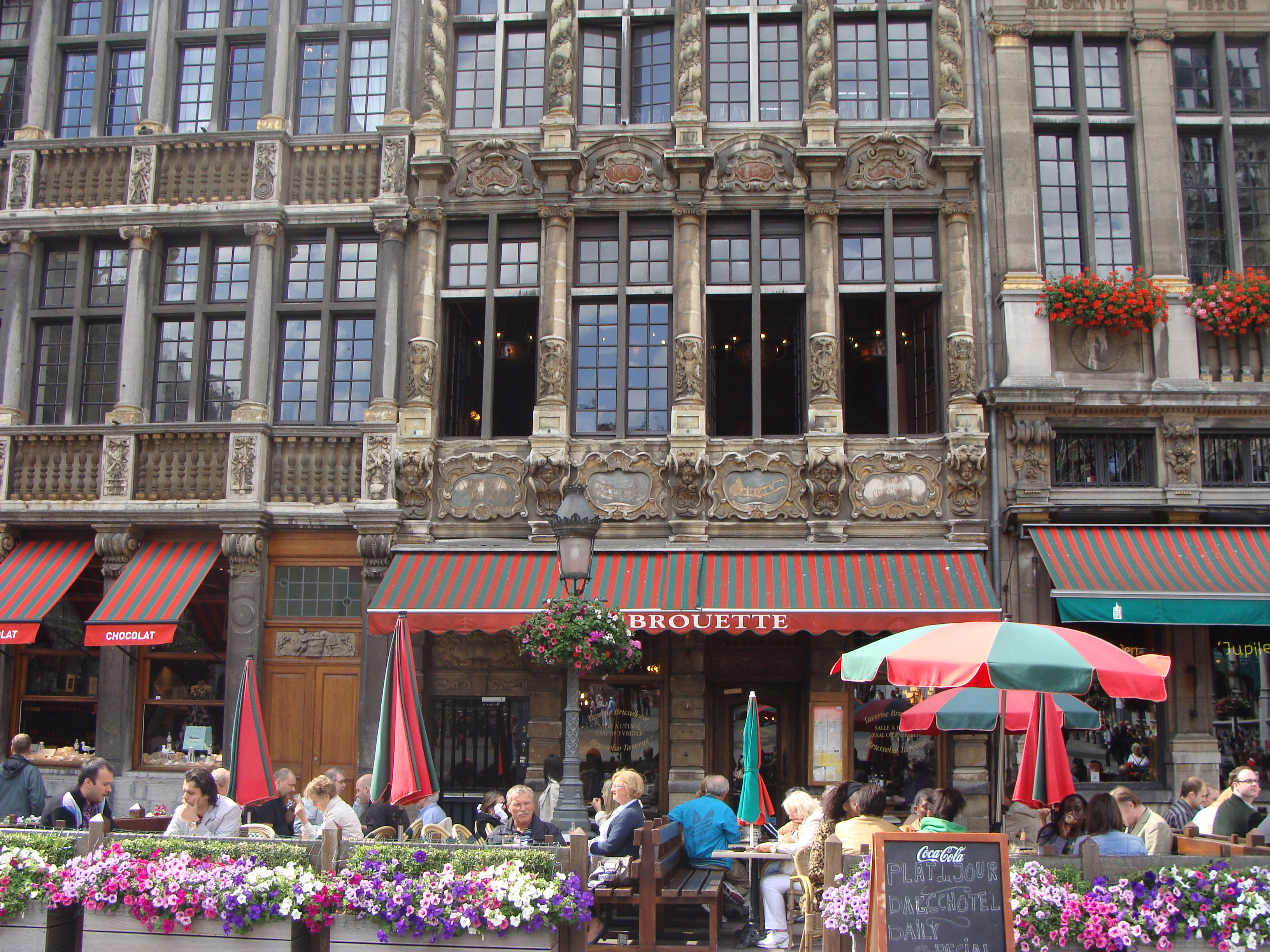 Grand Place, La Brouette, Bruxelles